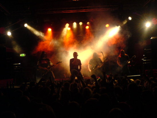 The Haunted live in Karlstad